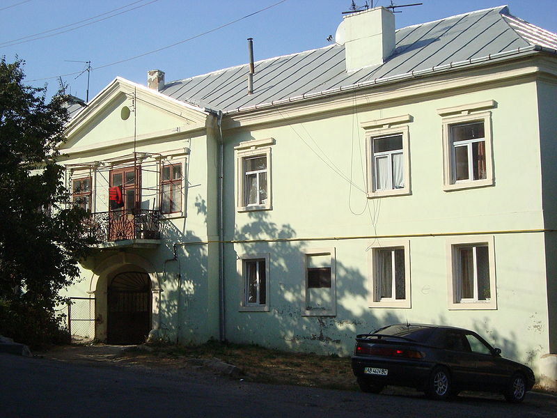 Palace Hurmuzachi-Logothetti in Chernivtsi, corner Zankovetskaya Street with Golovna (Main) Street, dating from 1763 (present view c1830)